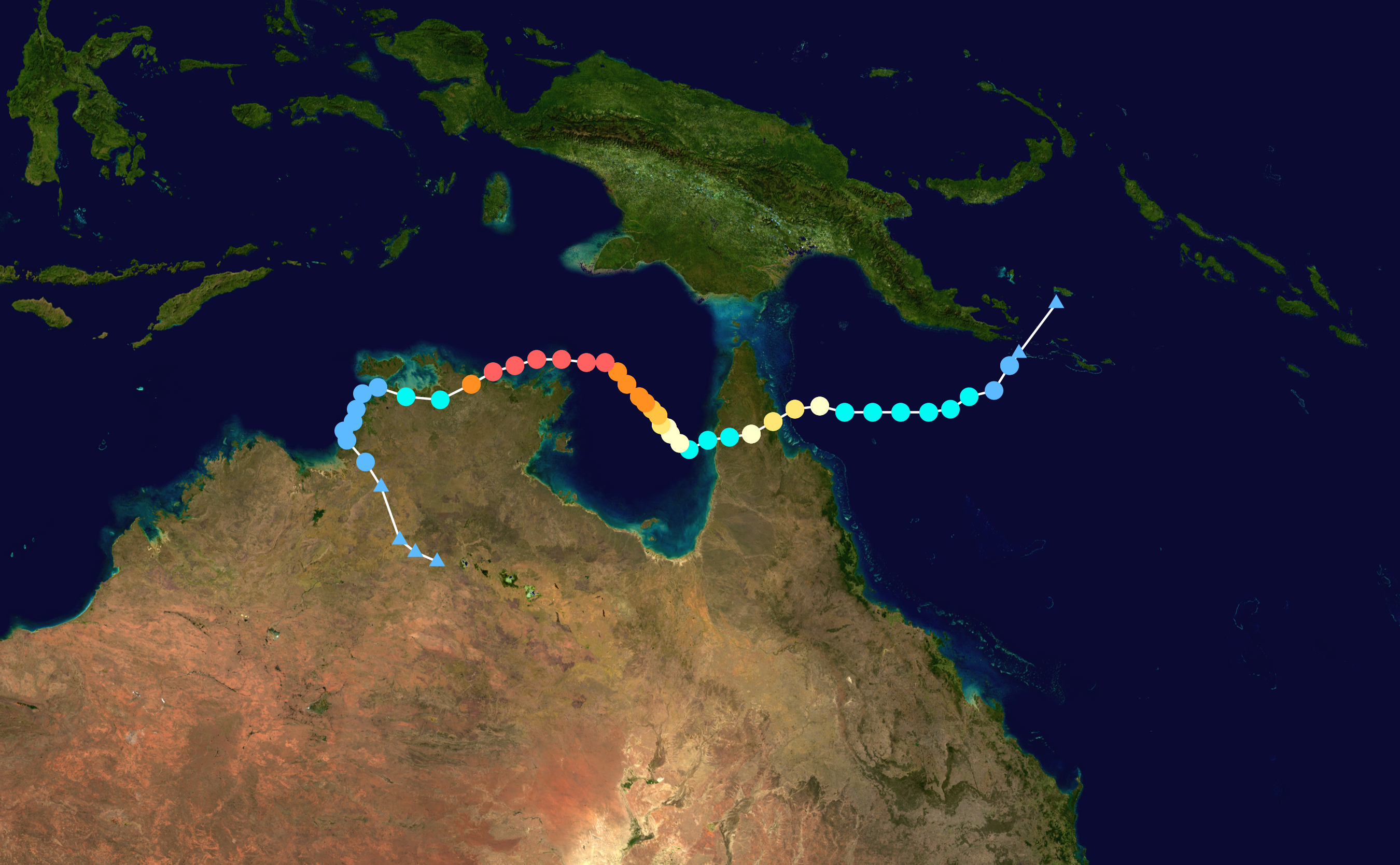 Track map of Severe Tropical Cyclone Monica of the 2005-06 Australian region cyclone season. The points show the location of the storm at 6-hour intervals. The colour represents the storm's maximum sustained wind speeds as classified in the Saffir-Simpson Hurricane Scale (see below), and the shape of the data points represent the nature of the storm, according to the legend below. Saffir–Simpson hurricane wind scale Tropical depression≤38 mph≤62 km/h Category 3111–129 mph178–208 km/h Tropical storm39–73 mph63–118 km/h Category 4130–156 mph209–251 km/h Category 174–95 mph119–153 km/h Category 5≥157 mph≥252 km/h Category 296–110 mph154–177 km/h Unknown Storm typeTropical cycloneSubtropical cycloneExtratropical cyclone / Remnant low / Tropical disturbance